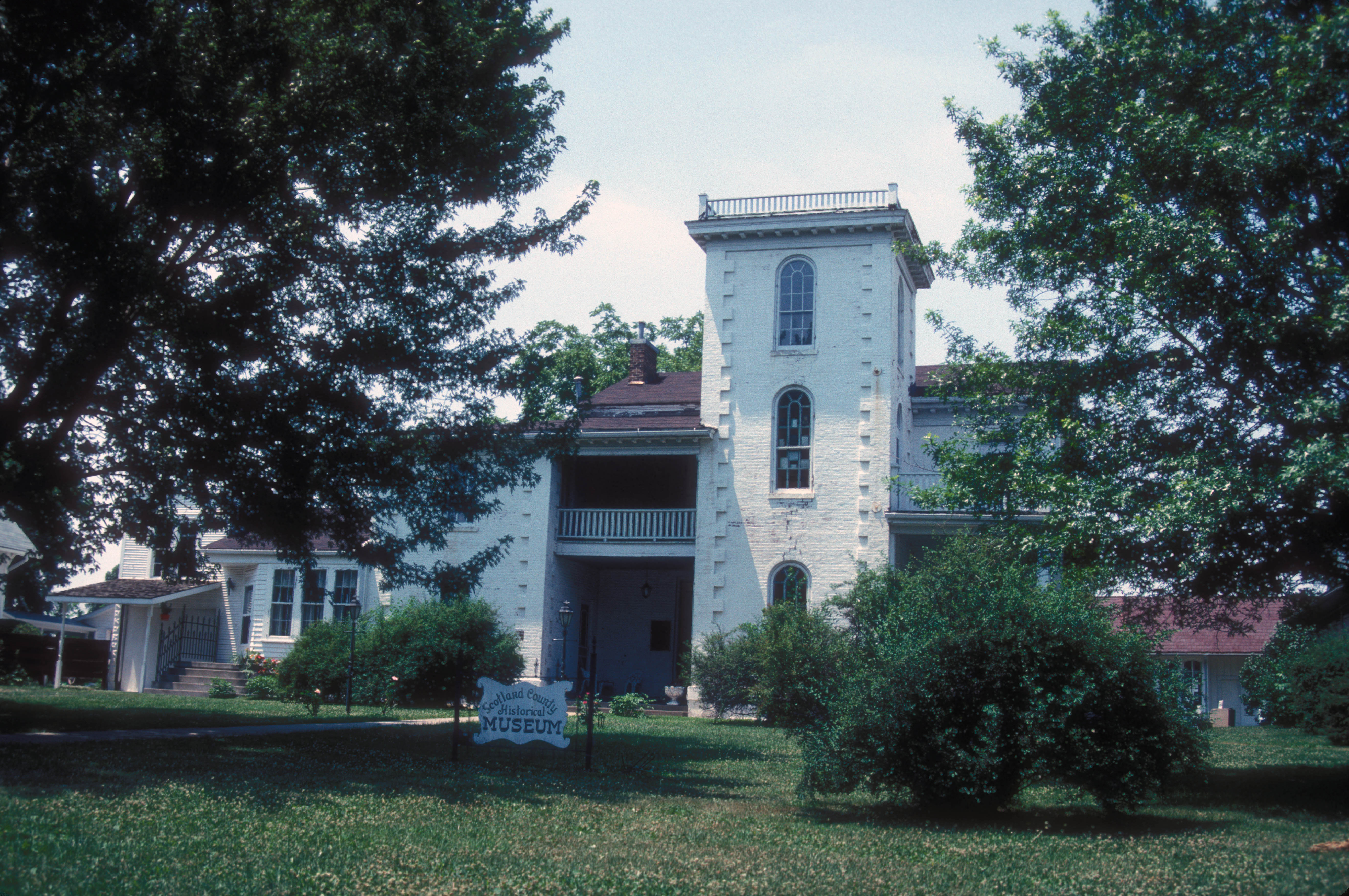 CIRCA 1858 BY THOMAS DOWNING, A VIRGINIAN; GREEK REVIVAL STYLE; IT WAS HEADQUARTERS FOR THE UNION ARMY AND UNION SOLDIERS RODE THEIR HORSES IN THE FRONT DOOR. IT ALSO SERVED AS A PRISON., INSIDE IS A LIFE SIZE MODEL OF ELLA EWING, THE MISSOURI GIANTESS WHO WAS 8 FEET 4 INCHES TALL (277 POUNDS) AND WAS AN ATTRACTION IN THE BARNUM CIRCUS